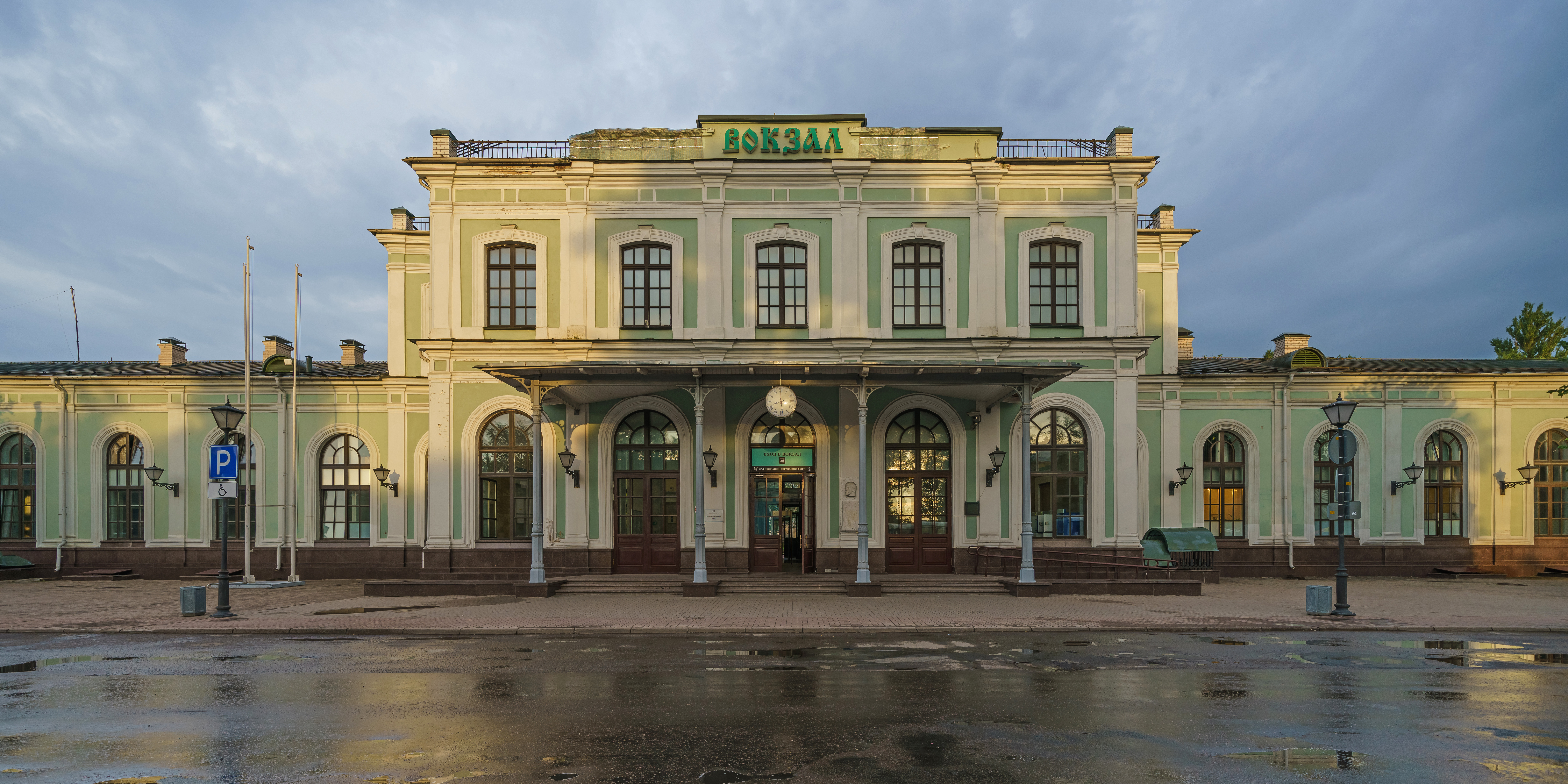 Railway station (street side) in Pskov, Russia